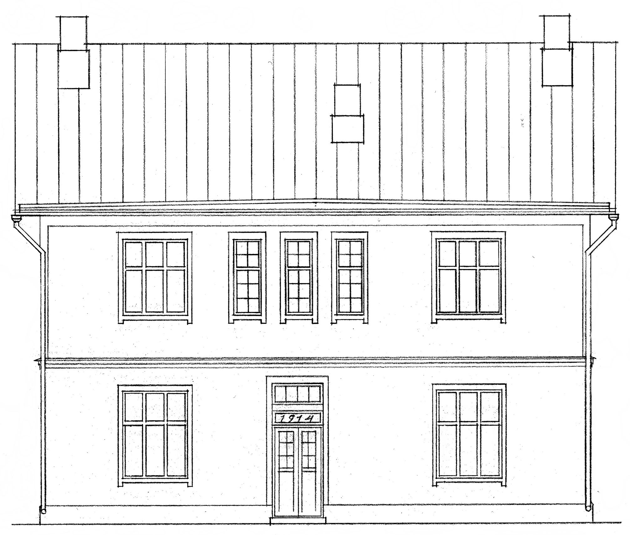 Villa Sandelius